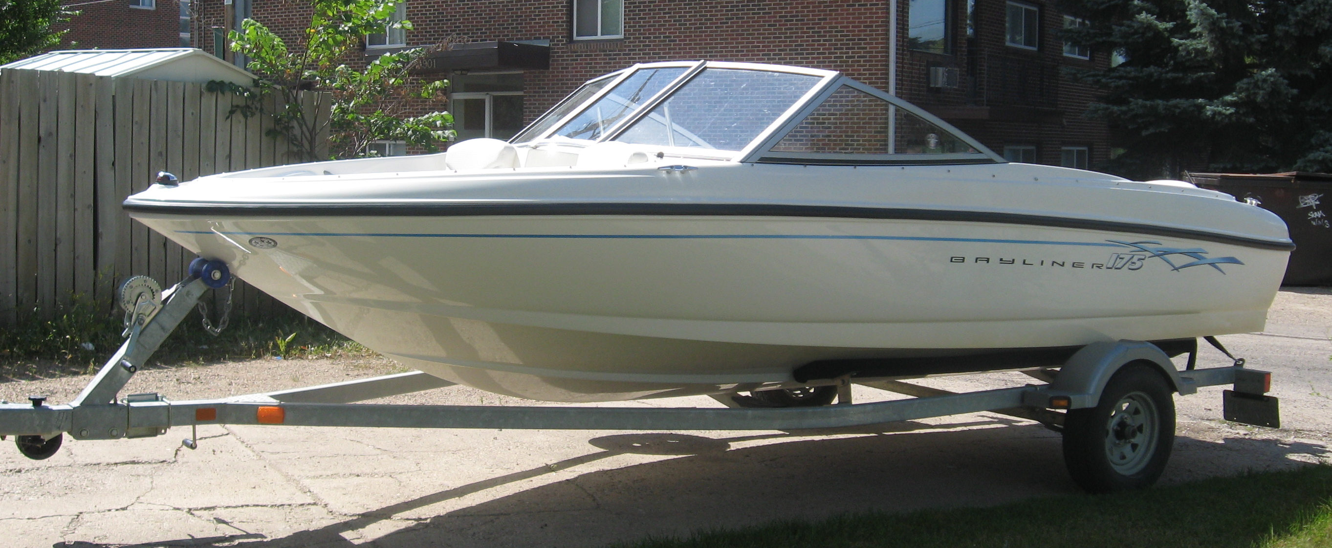 Bayliner 175, port side, shot in Saskatoon, SK, summer 2008